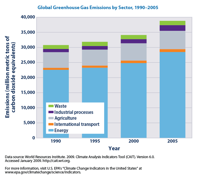 This bar graph shows global greenhouse gas emissions by sector from 1990 to 2005, measured in carbon dioxide equivalents. Sectors are waste (green), industrial processes (purple), agriculture (grey), international transport (orange), and energy (blue). Global sectoral emissions are shown for the years 1990, 1995, 2000, and 2005. From the cited public-domain source: "Energy use is the largest source of greenhouse gas emissions worldwide (about 73 percent of the total), followed by agriculture (16 to 17 percent) [...]." Totals do not include emissions due to land use change or forestry because estimates are not available for the most recent years. The bar graph is based on data from the World Resources Institute: Climate Analysis Indicators Tool (CAIT). Version 6.0. Accessed January 2009.